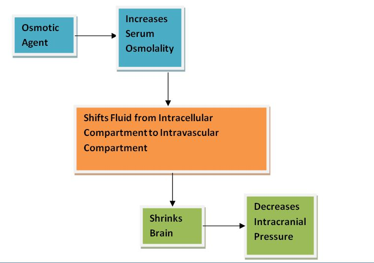 Basic Osmotherapy Mechanism/ Principle